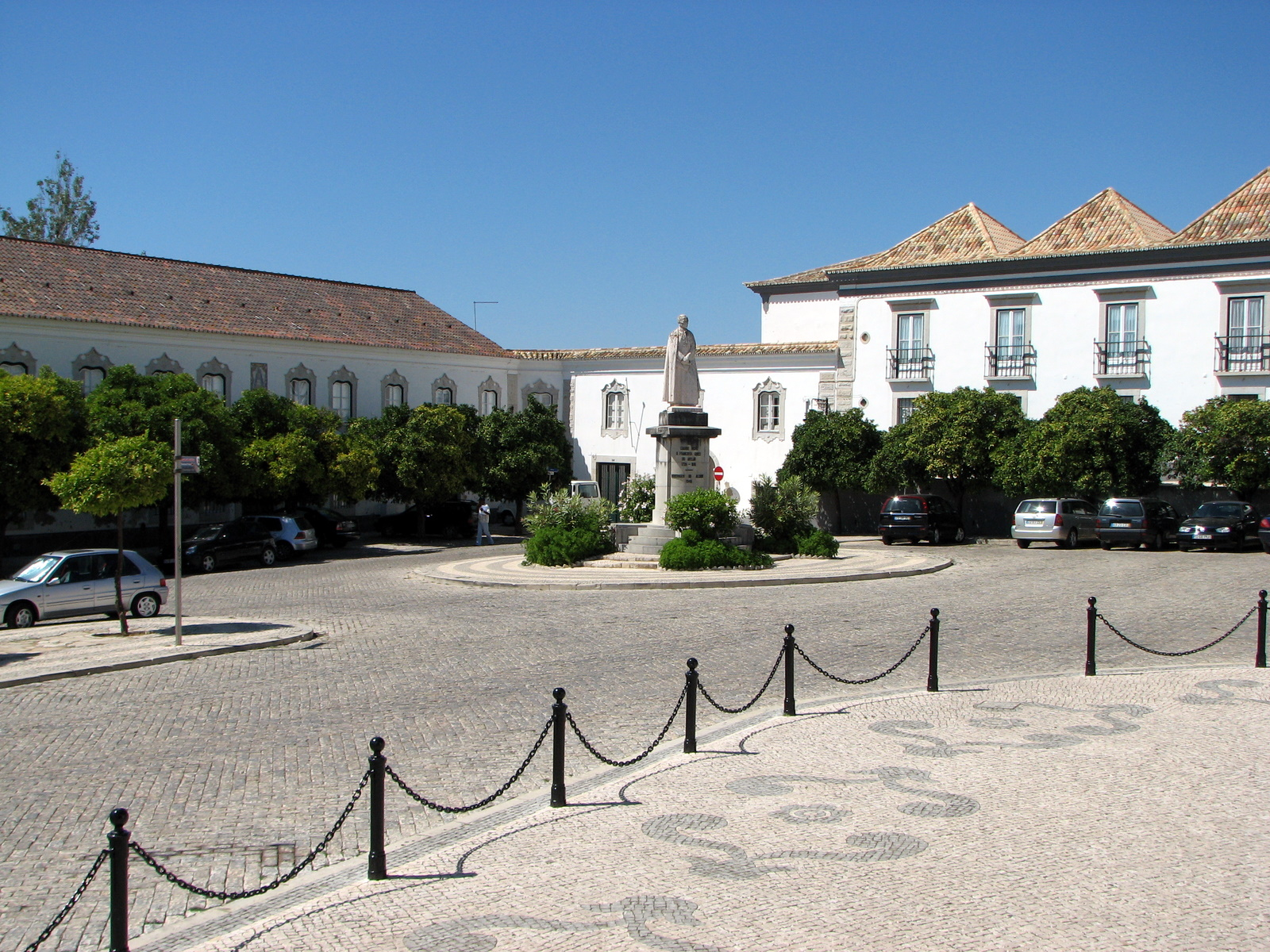 Square in the historical centre of Faro, Portugal